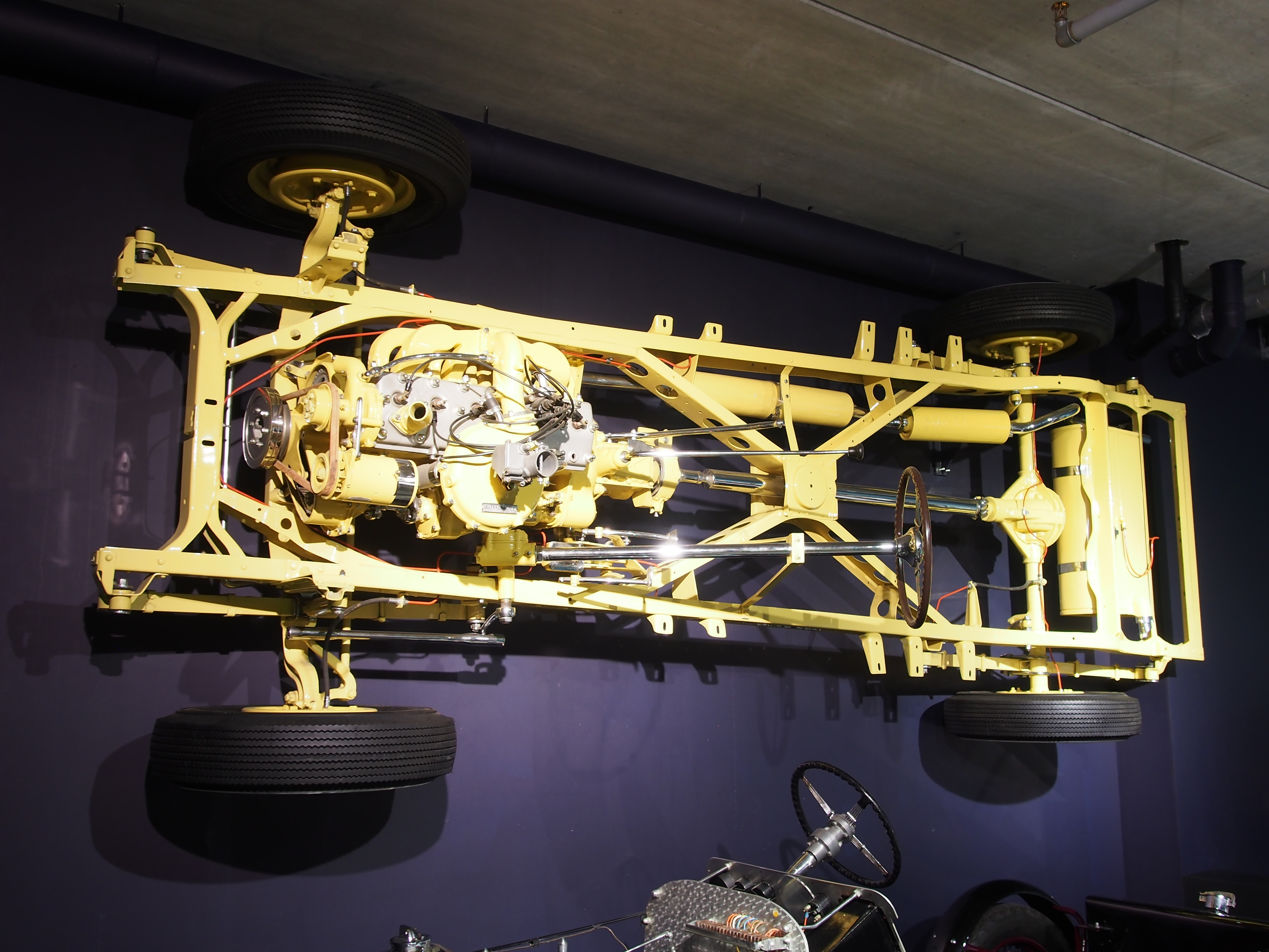 1938 Graham chassis photographed at the Louwman museum.